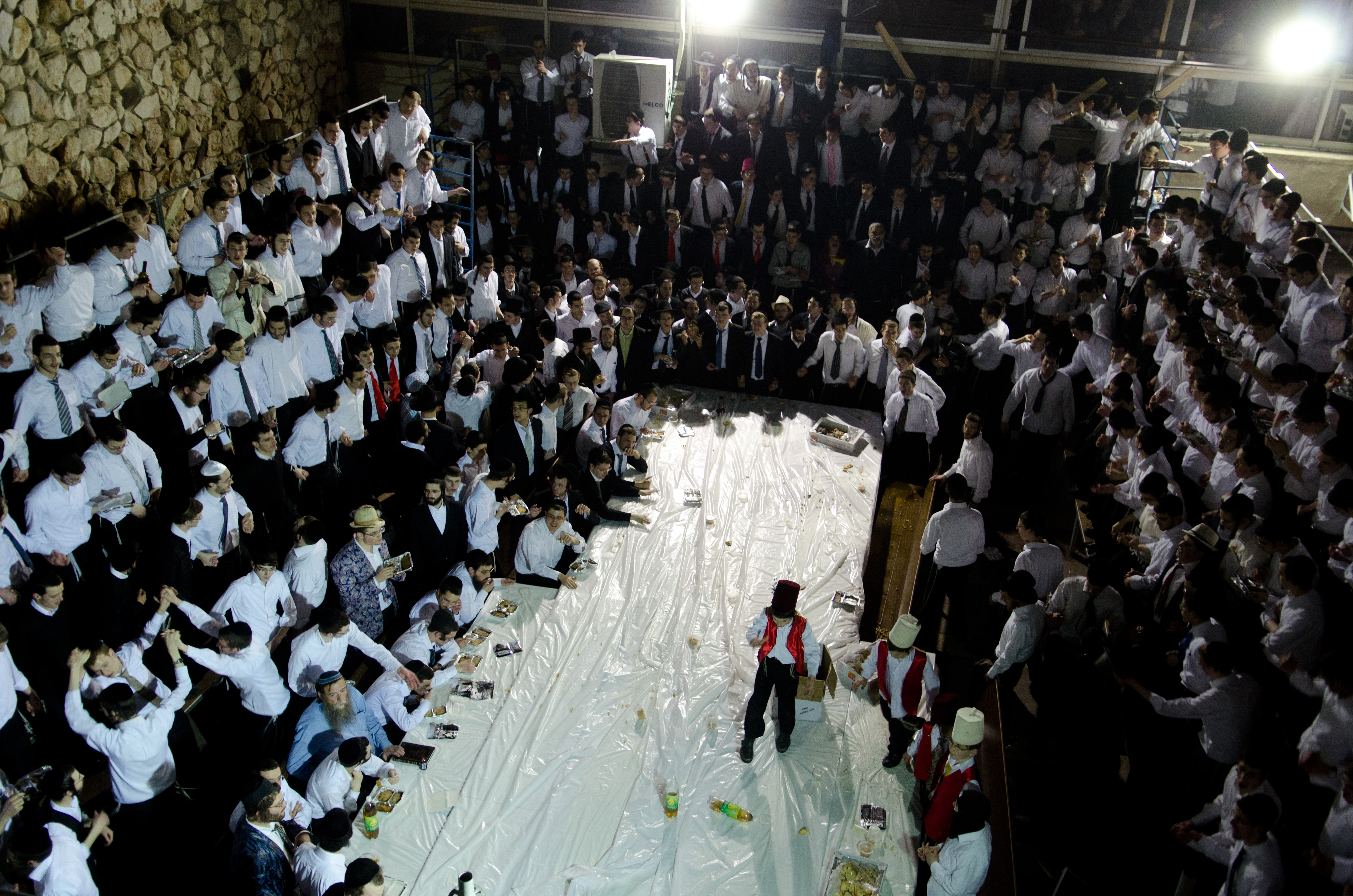 Purim Bnei-Brak, Religion in Israel